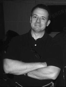 Jack Morelli at KidsComicCon 2011